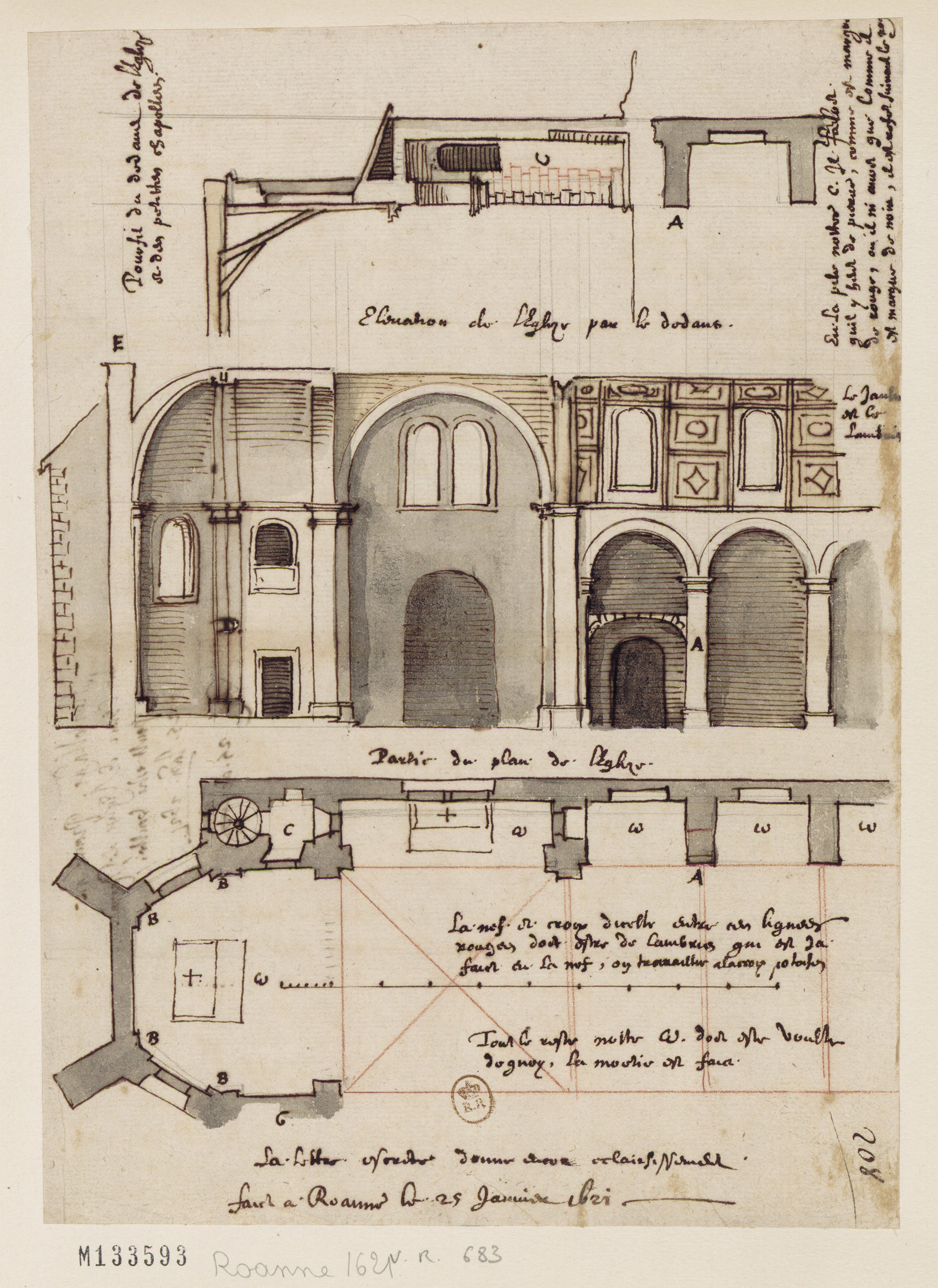 Partial plan and cross section of the church that formed part of the Jesuit college in Roanne. The church is now the Chapelle Saint-Michel.